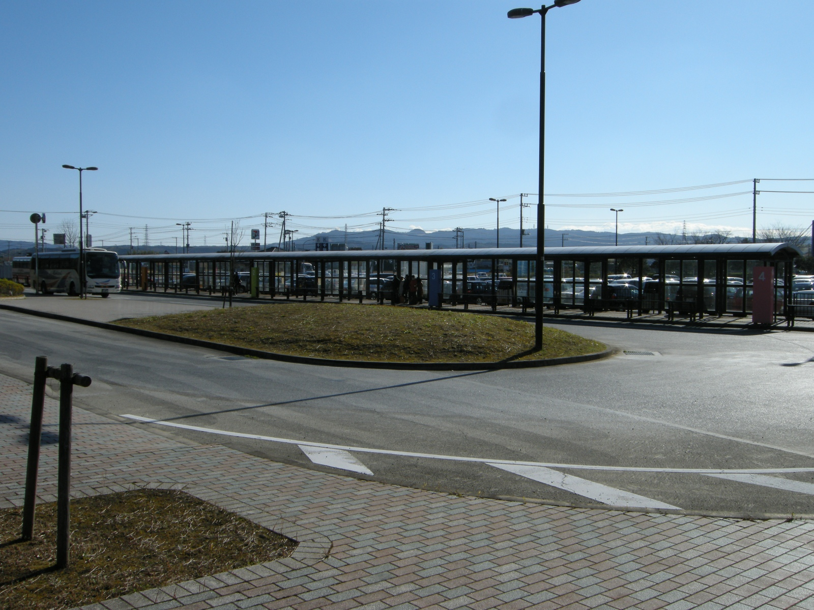 Platforms and rotary at Kimitsu Bus Terminal in Chiba, Japan